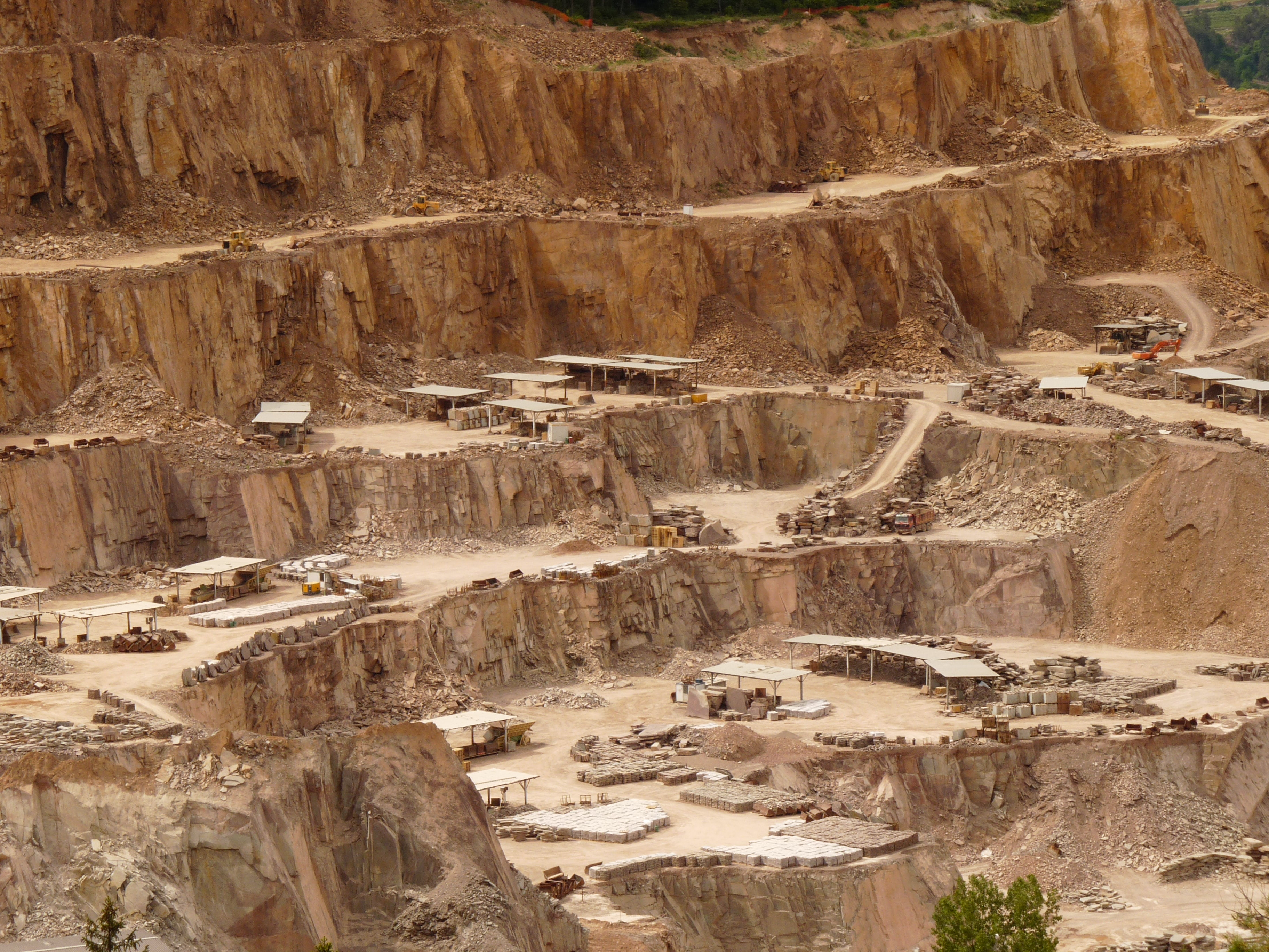 Albiano (Italy): detail of a porphyry quarry